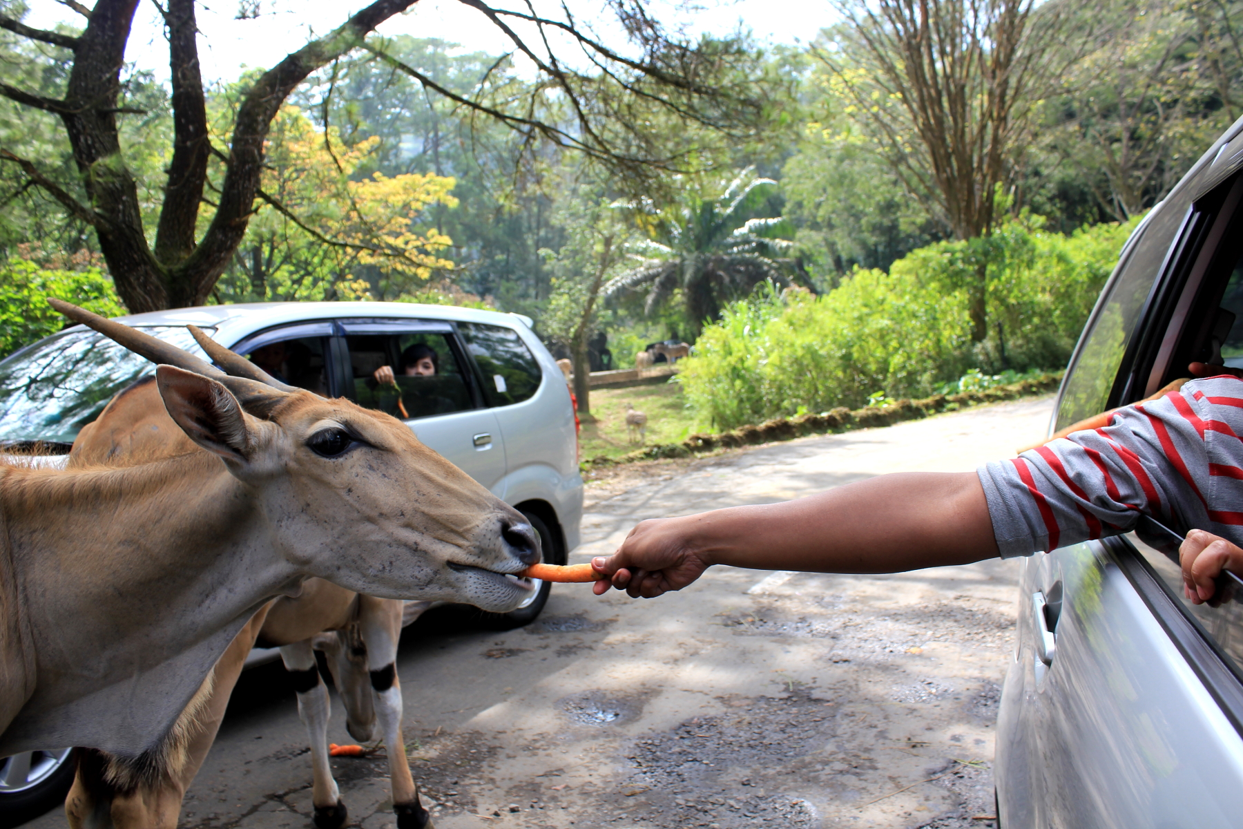 Feeding the animal with carrot